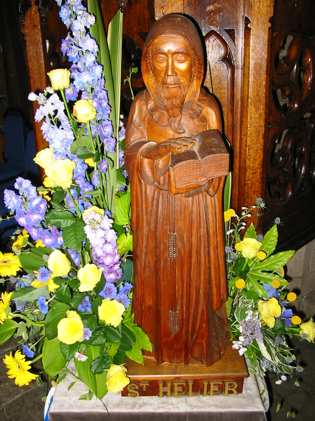 Statuette of Saint Helier in Saint Helier Parish Church, Jersey